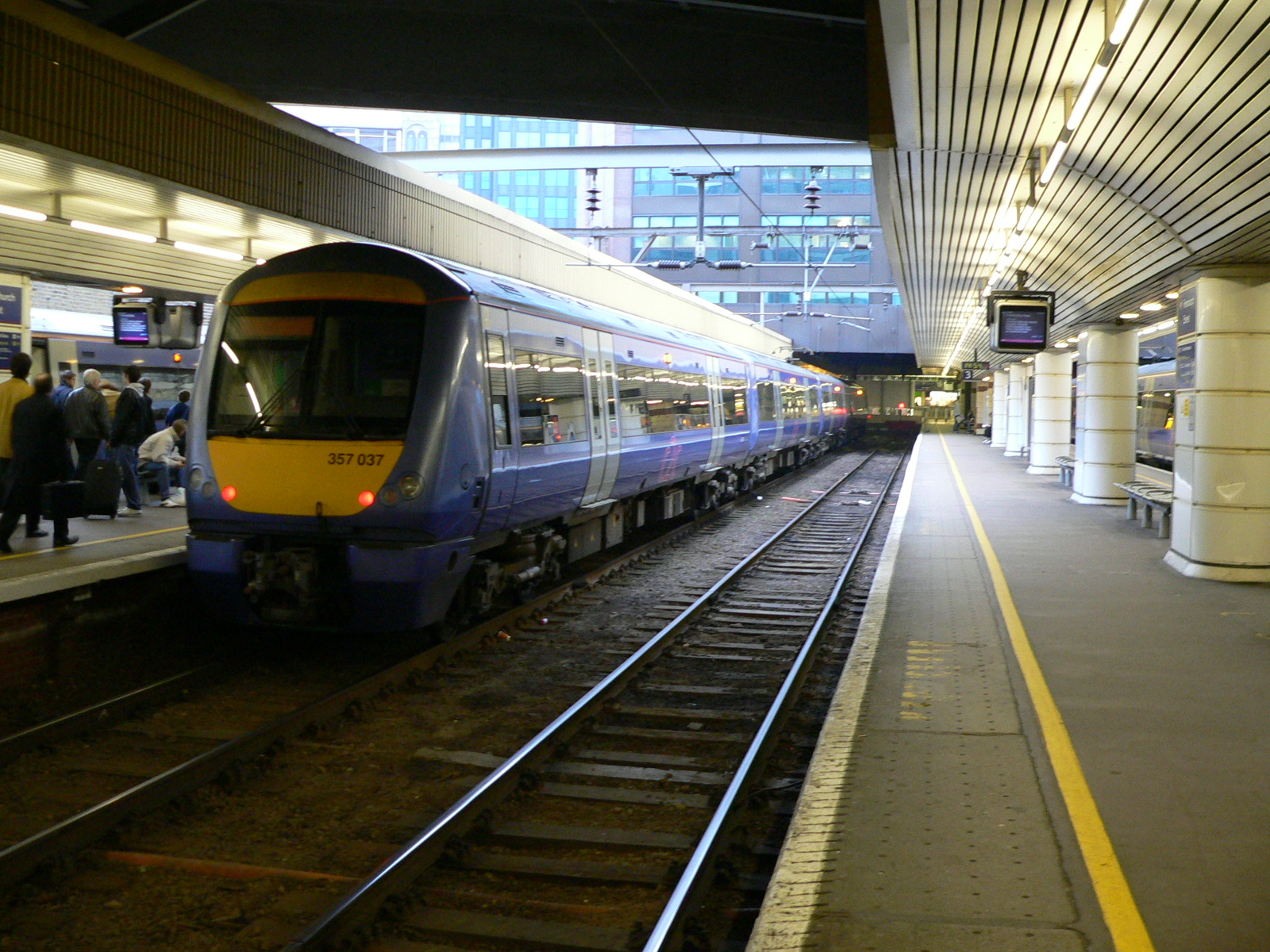 c2c Class 357 EMU 357037 at London Fenchurch Street railway station.